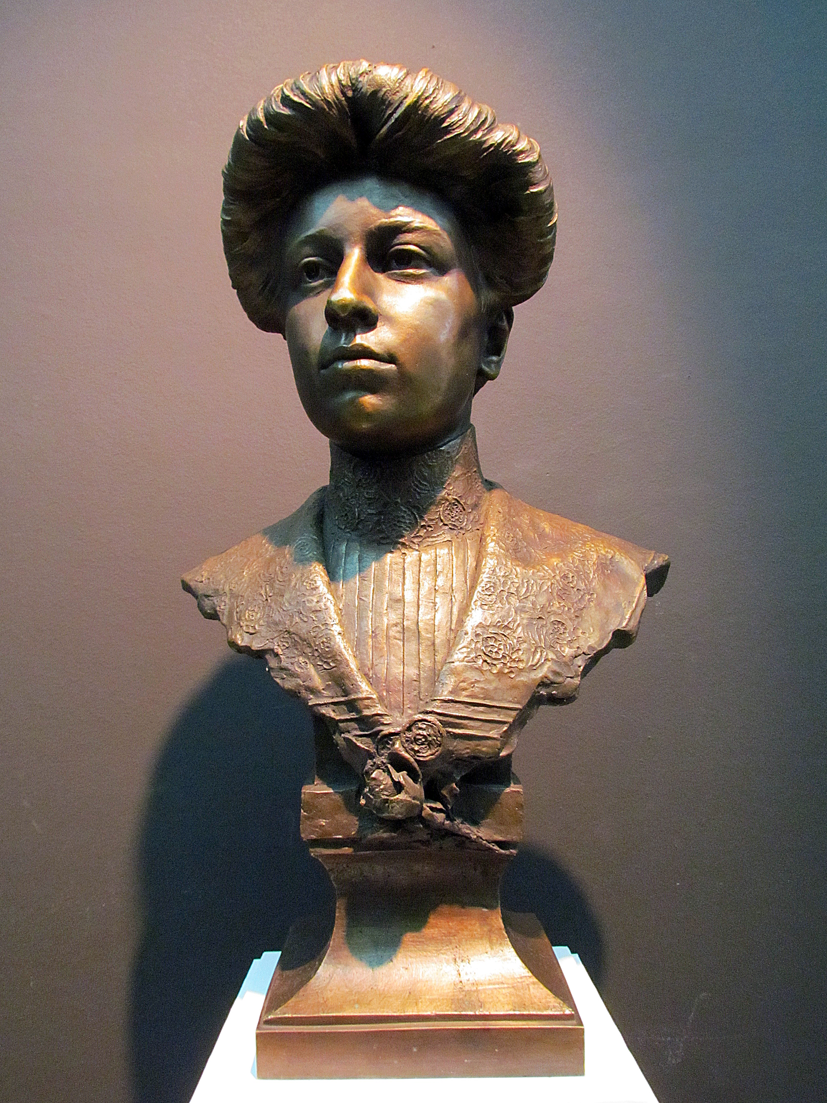 Petar Ubavkić, Branislava Simić, 1904